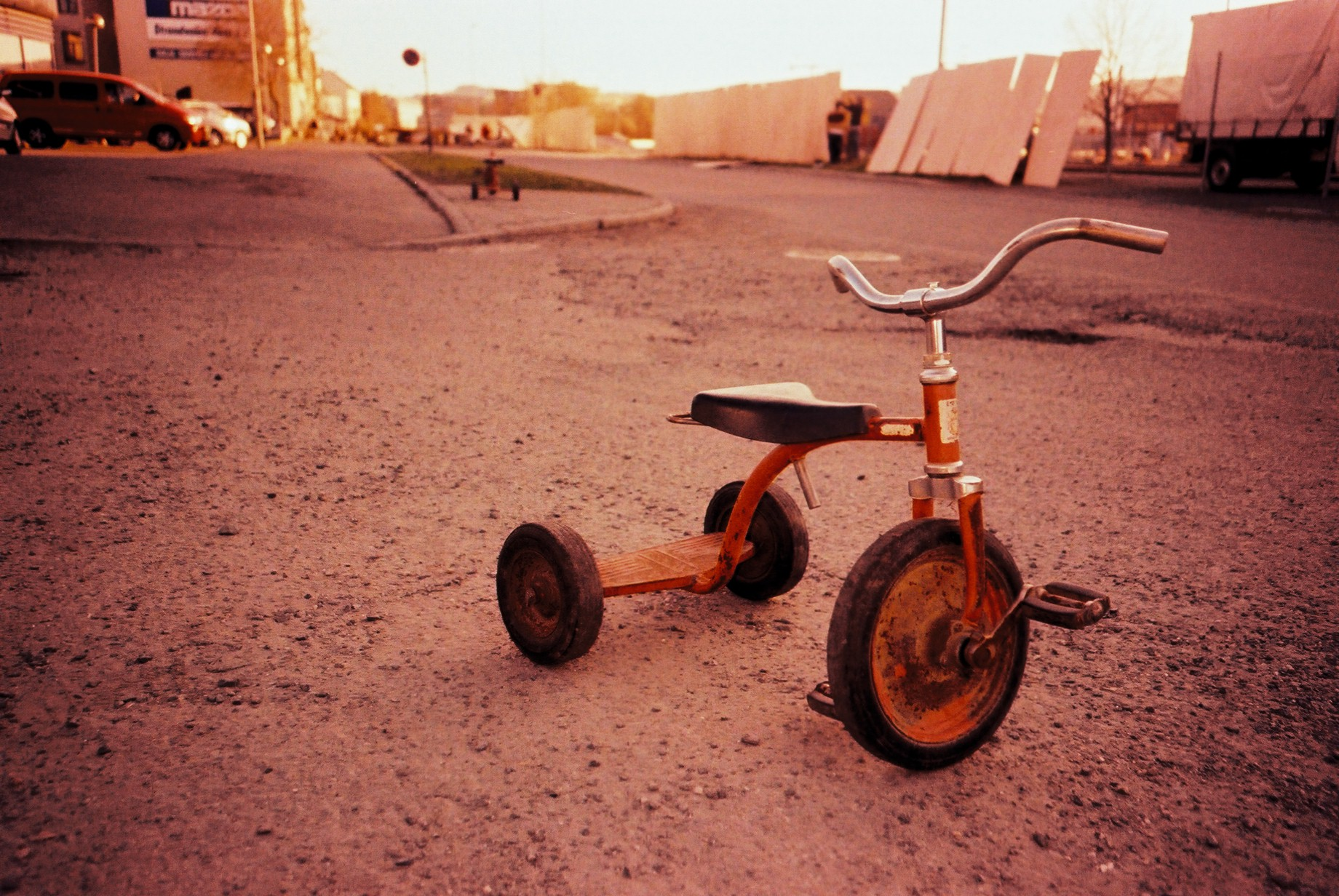 TricycleTricycle